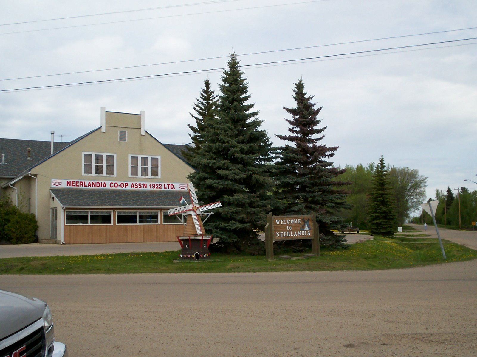 Downtown Neerlandia, showing windmill and Co-op.